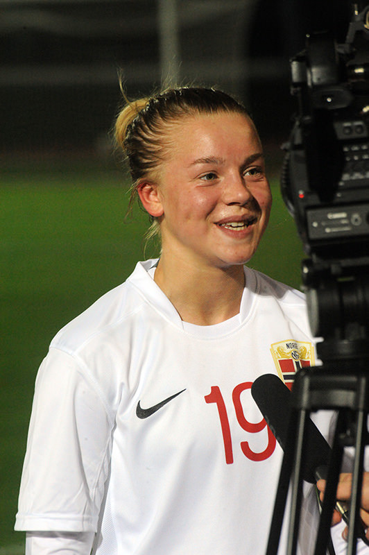 Marie Dølvik Markussen at the Algarve Cup 2015